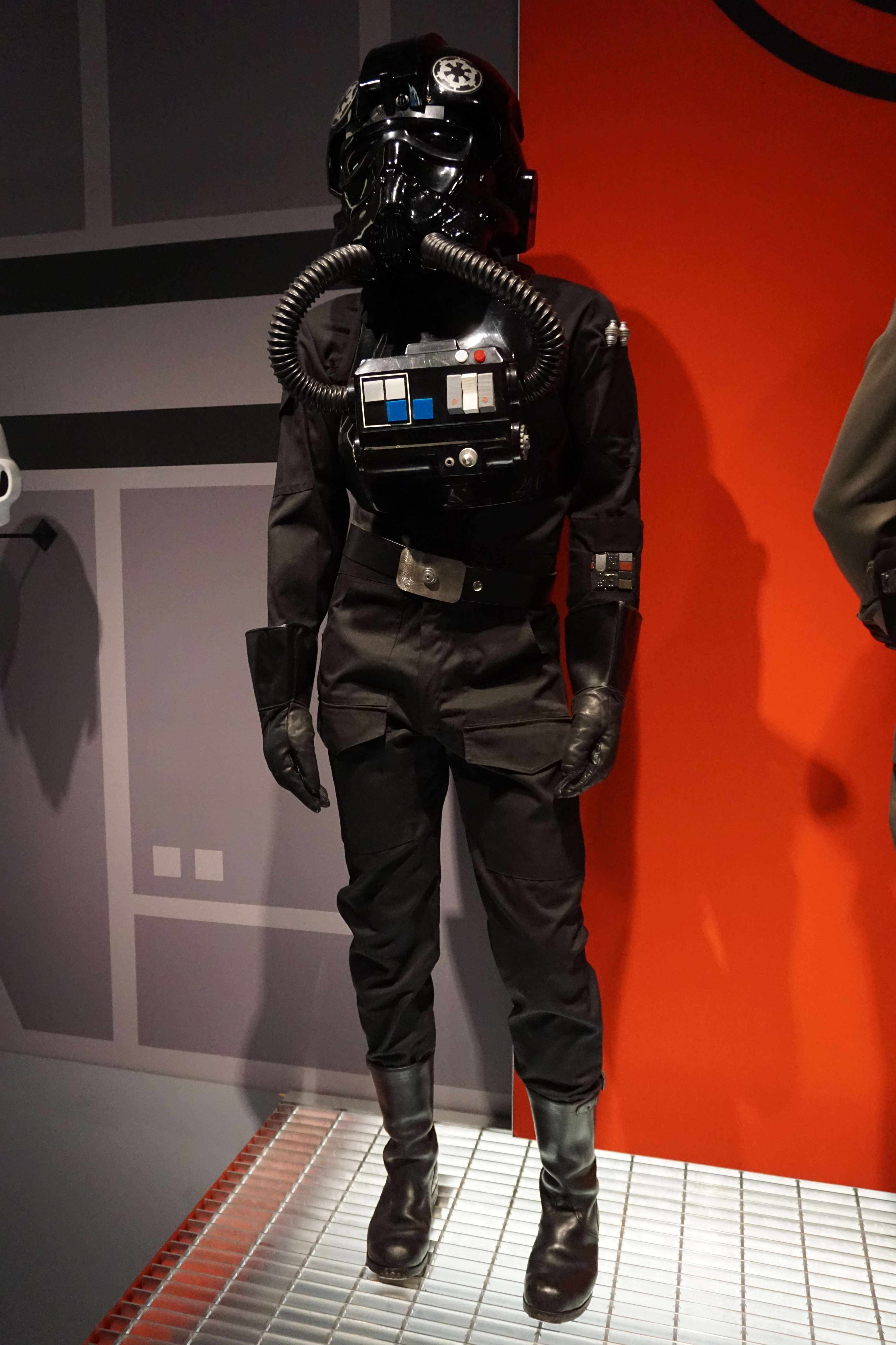 A TIE fighter pilot's costume and helmet from Star Wars: Episode IV – A New Hope on display at the Star Wars and the Power of Costume traveling exhibit at the Detroit Institute of Arts in Detroit, Michigan (United States).